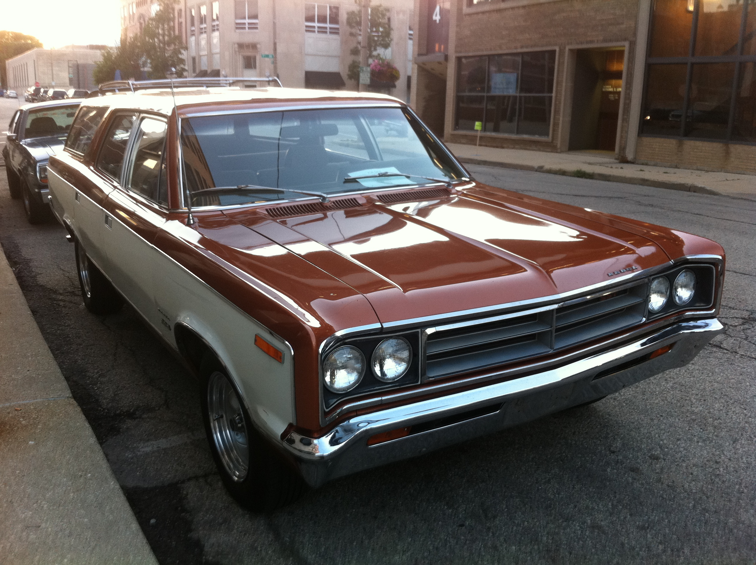 1970 AMC (American Motors Corporation) Rebel SST station wagon finished with an optional two-tone paint (on body sides and rear tailgate) - photograph taken in Kenosha, Wisconsin. This car has the standard 304 cubic inch (5.0 L) V8 engine, as well as the roof rack